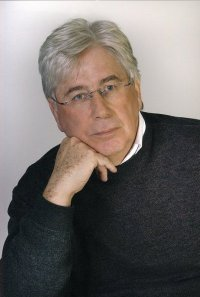 Ronald B. Scott, author of Mitt Romney: An Inside Look at the Man and His Politics, 2012, Guilford, Connecticut: Lyons Press, ISBN 9780762779277.